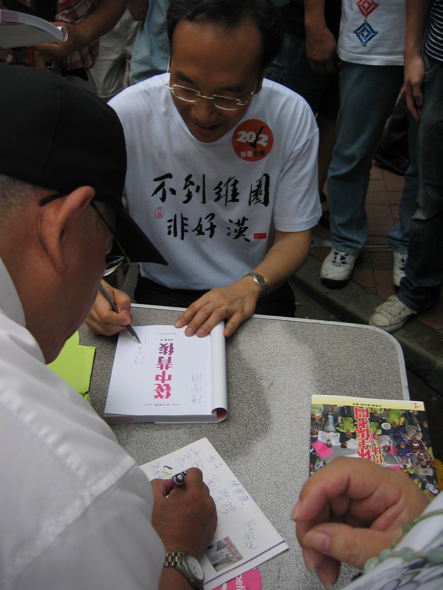 Alan Leong is signing on his book "Behind the Pocket Square" during the Hong Kong 2007 July 1 marches.中文（香港）: 梁家傑在2007年七一大遊行中為書籍＜袋巾背後＞簽名。